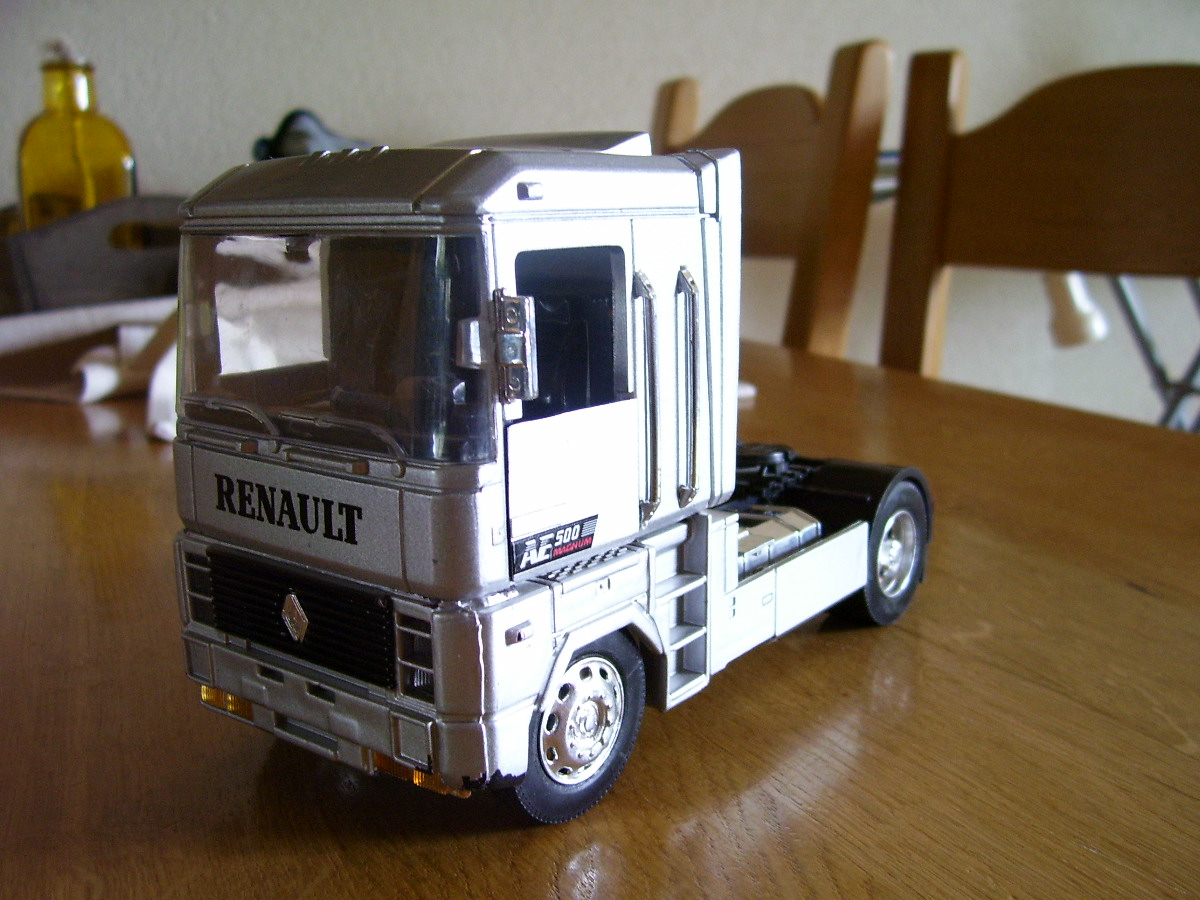 Model of Renault AE500 Magnum 1:32 assembled by New Ray